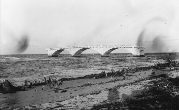 Remains of a bridge at Baker's Haulover Inlet in Miami, Florida. The Miami Hurricane of 1926 washed the land away from both ends.